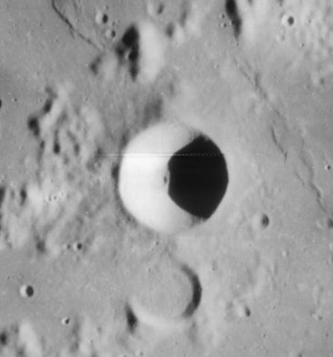 Darney (crater), on the moon.